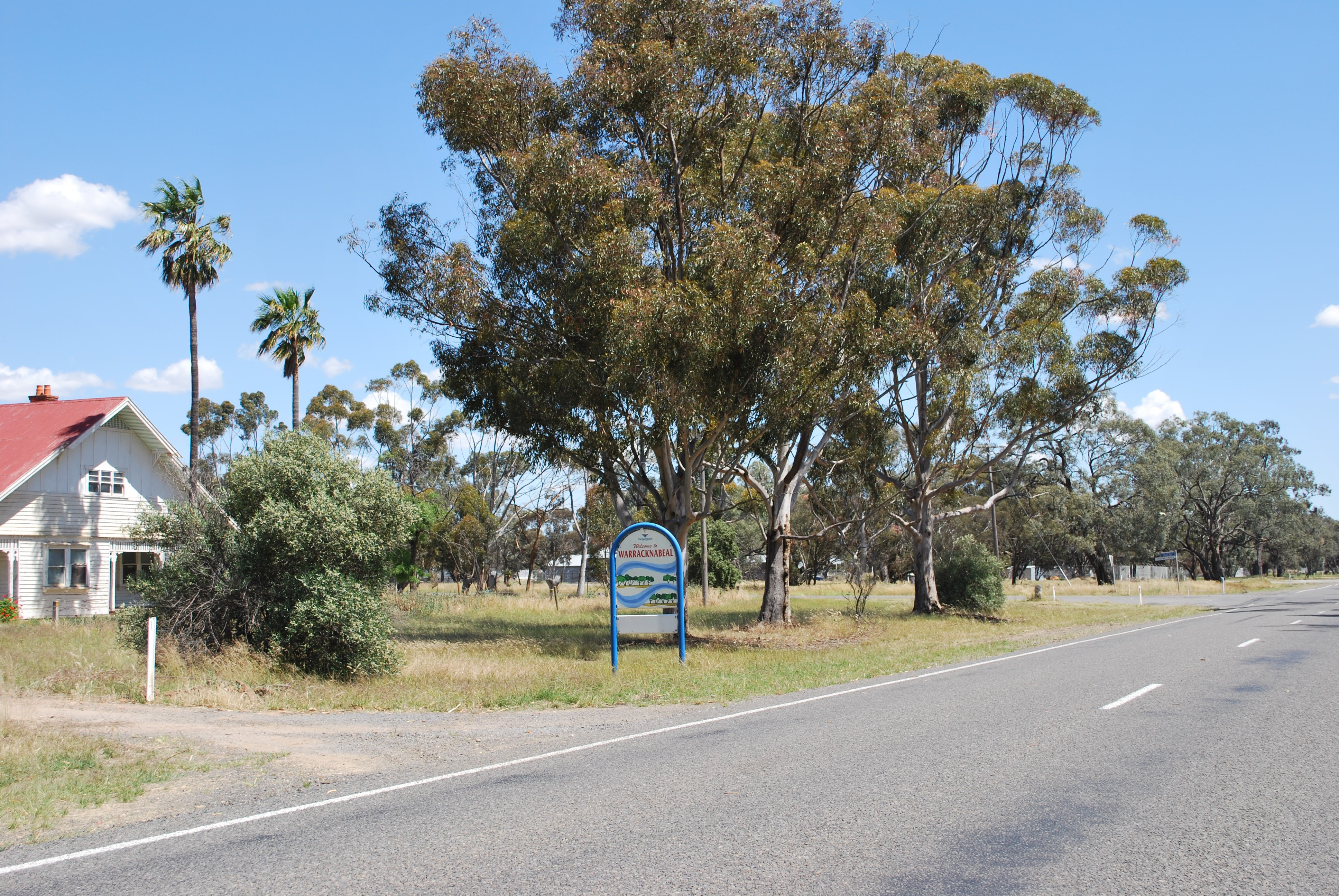 Entering Warracknabeal, Victoria